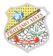 Coat of arms of the city of Protásio Alves, Rio Grande do Sul, Brazil.